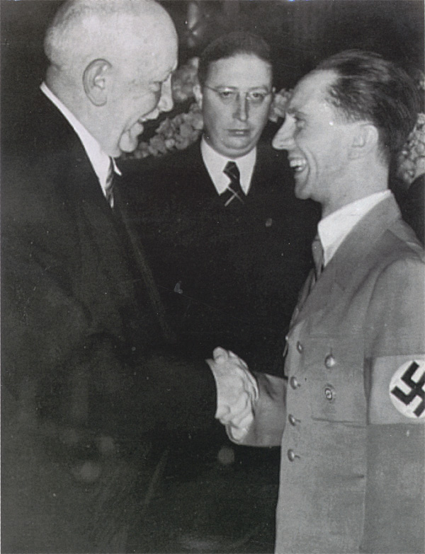 From the left: composer Richard Strauss (President of the Reichsmusikkammer, Department of Music in the propaganda Ministry), Heinz Drewes (Generalintendant and Generalmusic-director of the Reichsmusickammer) and and Joseph Goebbels (Nazi propaganda chief and President of the Reichskulturkammer). Strauss resigned in July 1935 and was succeeded by Peter Raabe who served as President from 1935 until the end of the war. - In Photo at : "1938 Drewes zwischen R. Strauss und Goebbels auf den von Drewes initiierten und organisierten 1. “Reichsmusiktagen” Düsseldorf im Anschluss an die “Kulturpolitische Kundgebung”" [1] The photo published originally in "Deutsche Sängerbundeszeitung Amtsblatt des Deutschen Sängerbundes" 4. Juni 1938